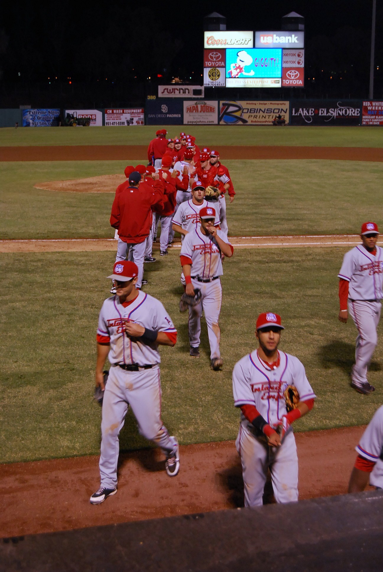 The team after a 7-2 victory over the Lake Elsinore Storm at the Lake Elsinore Diamond.